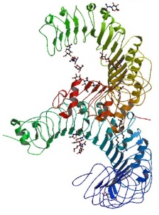 The image is about the heterodimer complex that the TLR1 and the TLR2 create.